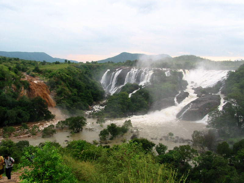 Barachukki Falls, a part of the Shivanasamudram Waterfalls, is the more awe inspiring of the 2 falls that includes Gaganachukki Falls. The brown waterfall that you notice to the left of the image is a monsoon special and a rare sight. The white water cascade is what you normally get to see.